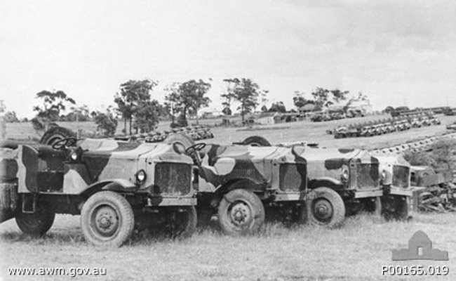 Thornycroft Hathi 4x4 lorries, de-mobbed after WW2 in an Australian army vehicle park Original description at source: ID Number: P00165.019 Physical description: Black & white Summary: NORTH RYDE, NSW, WWII. VEHICLES AT 3RD AUSTRALIAN ORDNANCE VEHICLE PARK, NORTH RYDE. TAKEN BY JOHN GARDENER WHEN HE WAS CAMP PHOTOGRAPHER, OCTOBER/ NOVEMBER 1945. Copyright: Copyright expired - public domain Copyright holder: Copyright Expired Related subject: Vehicle parks Related unit: 3 Ordnance Vehicle Park Related place: Australia: New South Wales, Sydney, Ryde Related conflict: Second World War, 1939-1945